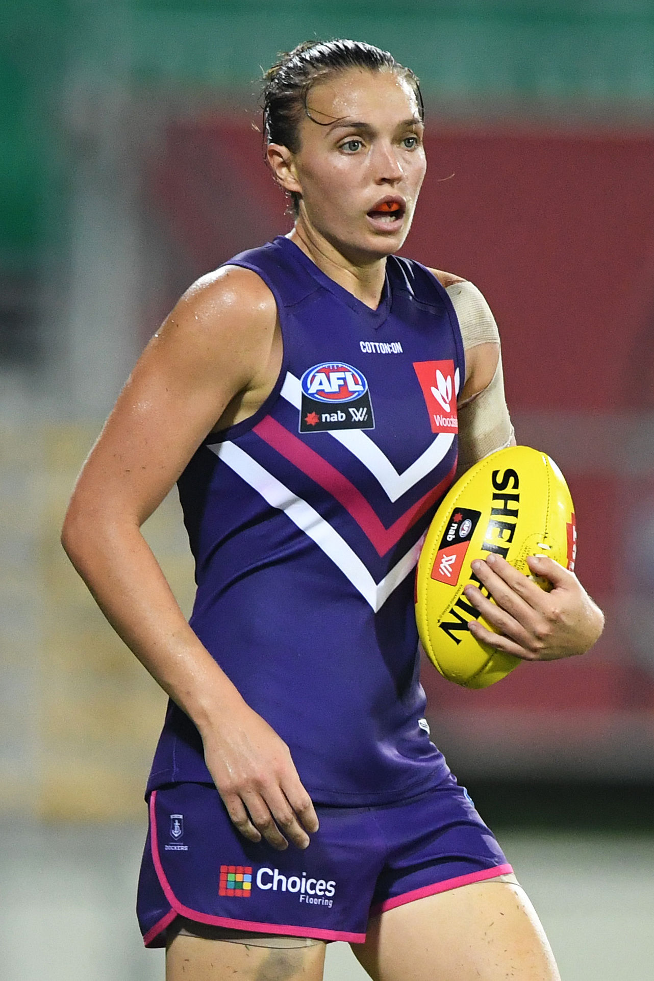 Ebony Antonio of Fremantle during the 2019 AFL Women's practice match between the Adelaide Football Club and Fremantle Football Club at TIO Stadium on January 19, 2019 in Darwin Australia.